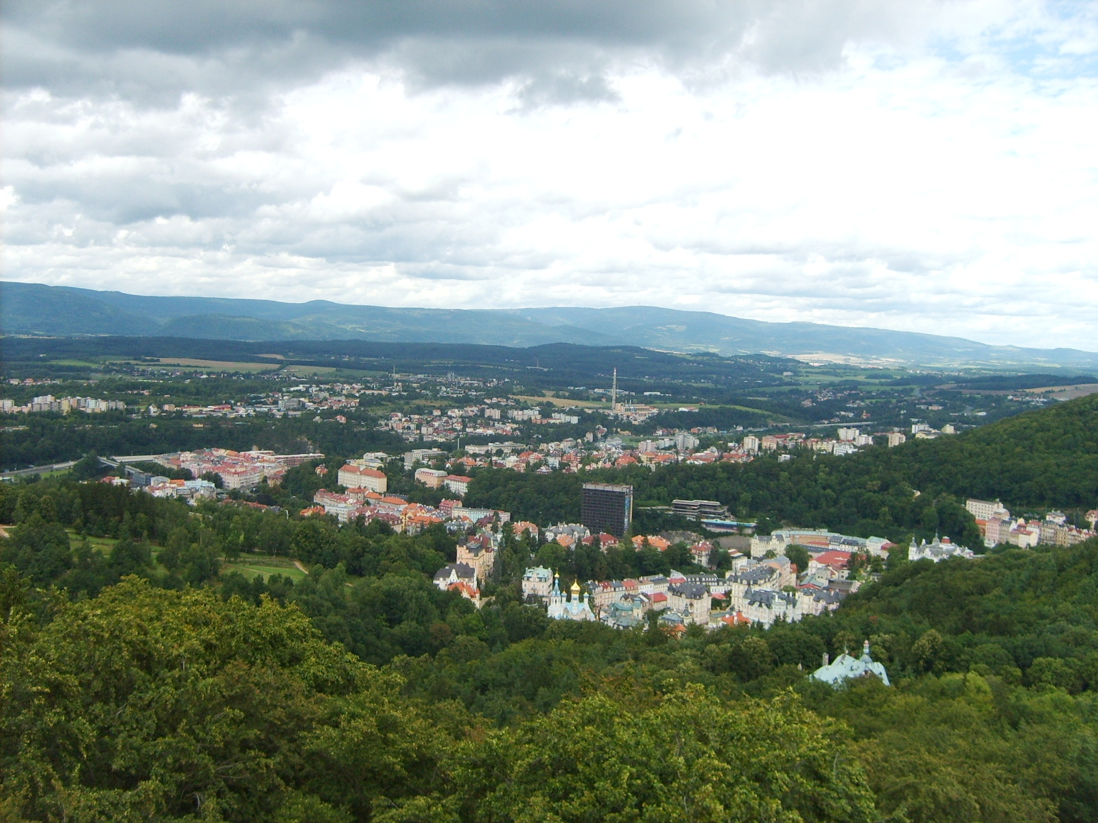 Look from Diana outlook tower in Carlsbad, Czech republic. Direction north: Thermal hotel, quarter Bohatice and Ore Mountains (the tallest mountain Klínovec 1.244 m).